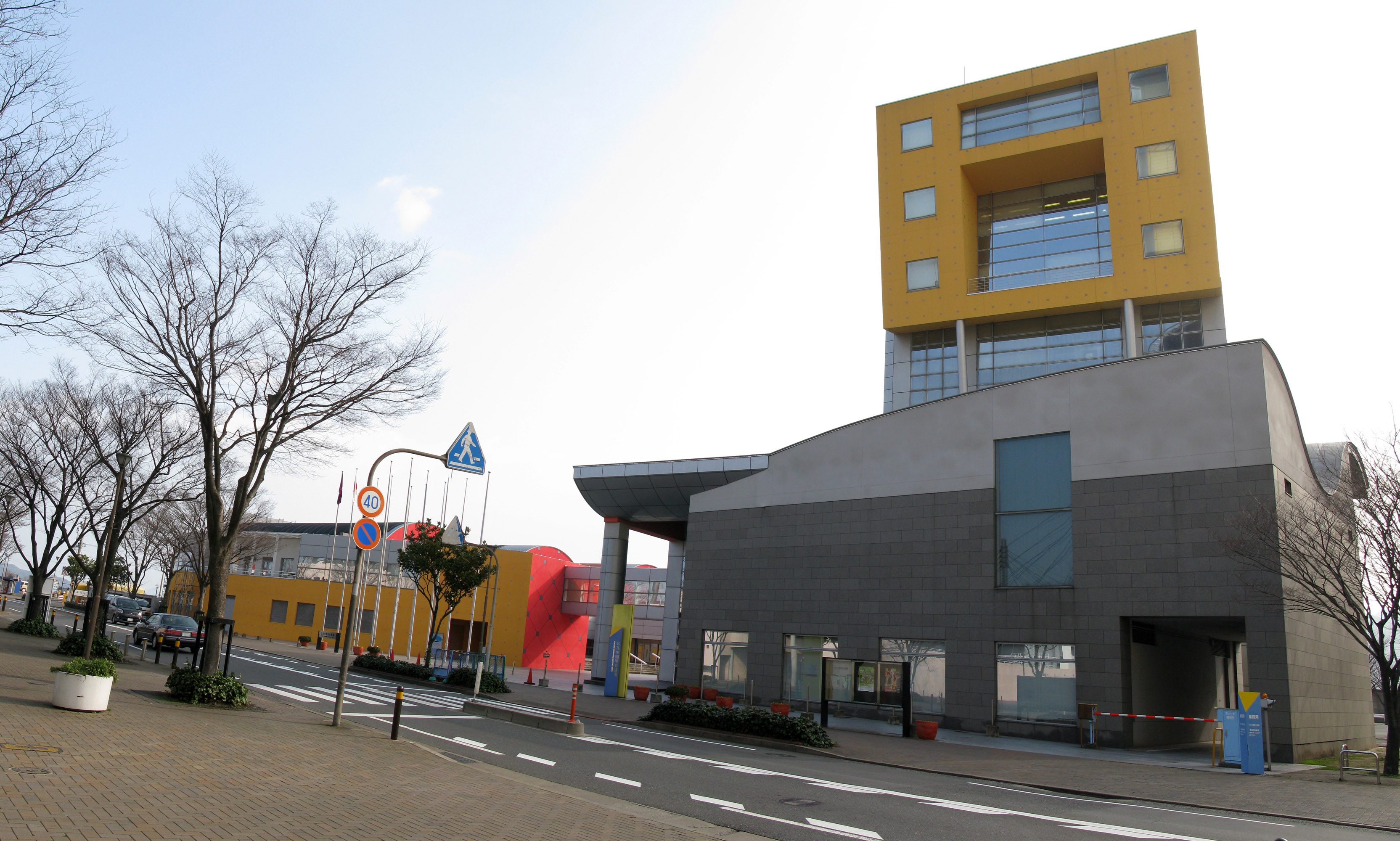 Kitakyushu International Conference Hall